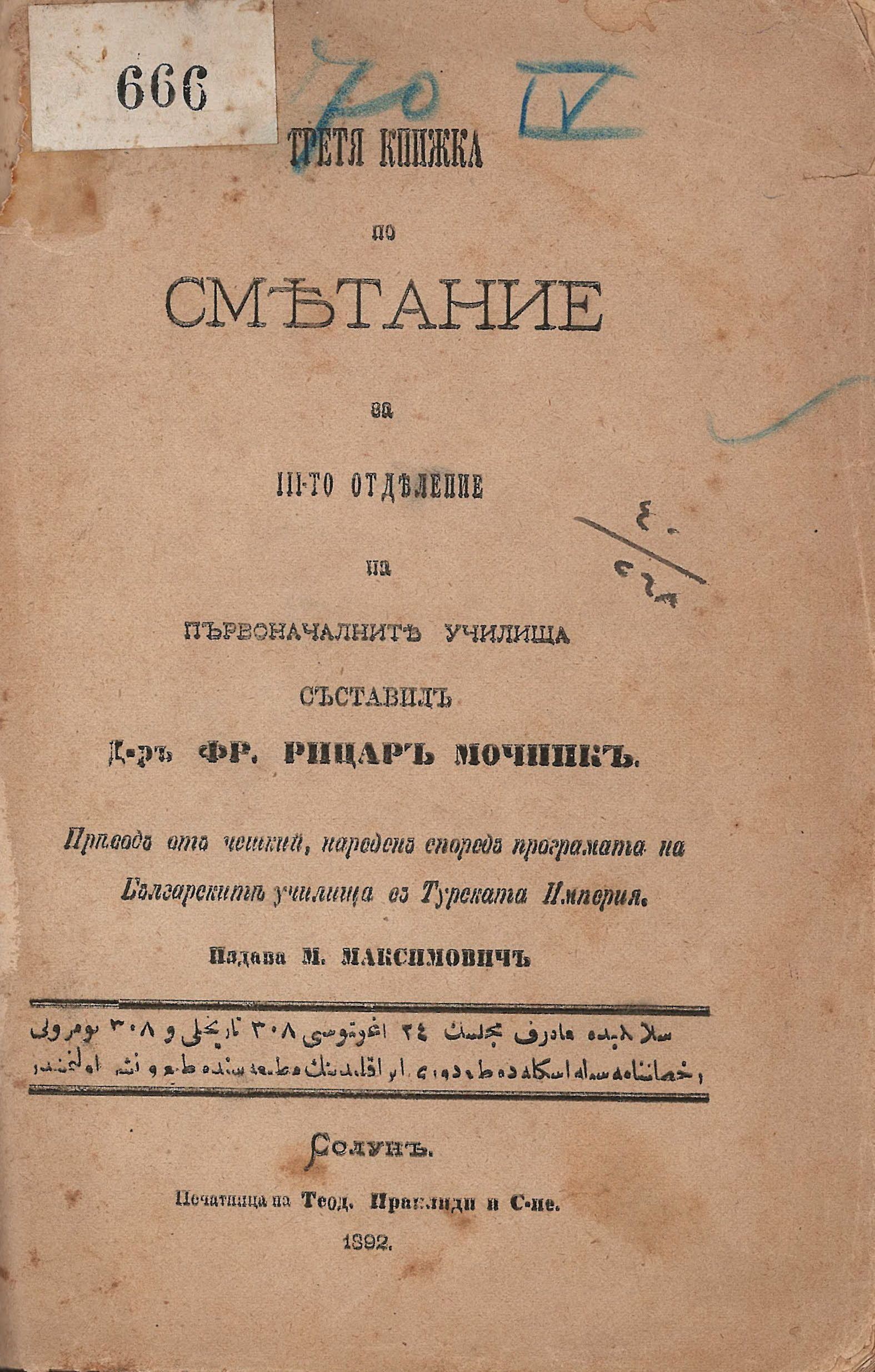 Maths Bulgarian Primer 1892